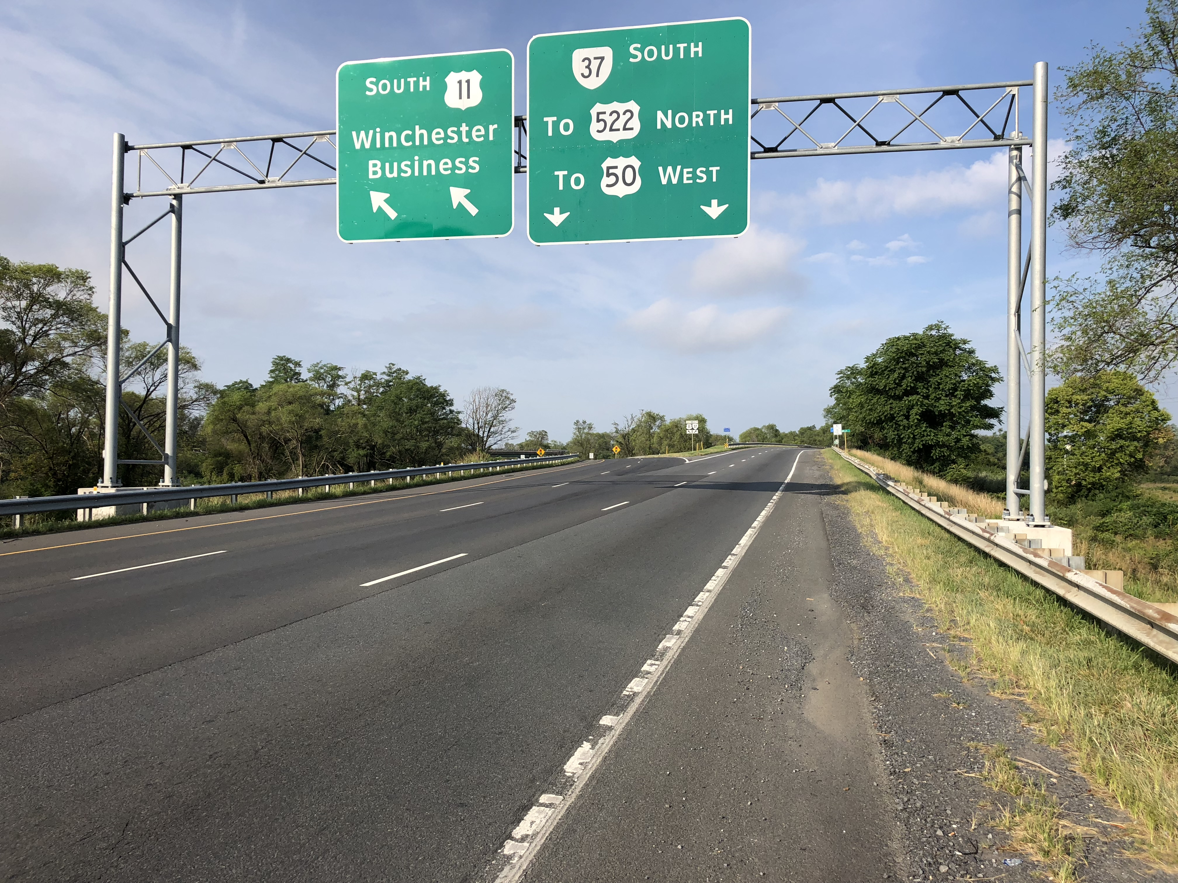 View south along U.S. Route 11 (Martinsburg Pike) at the exit for Virginia State Route 37 SOUTH (TO U.S. Route 522 NORTH, TO U.S. Route 50 WEST) in Sunnyside, Frederick County, Virginia